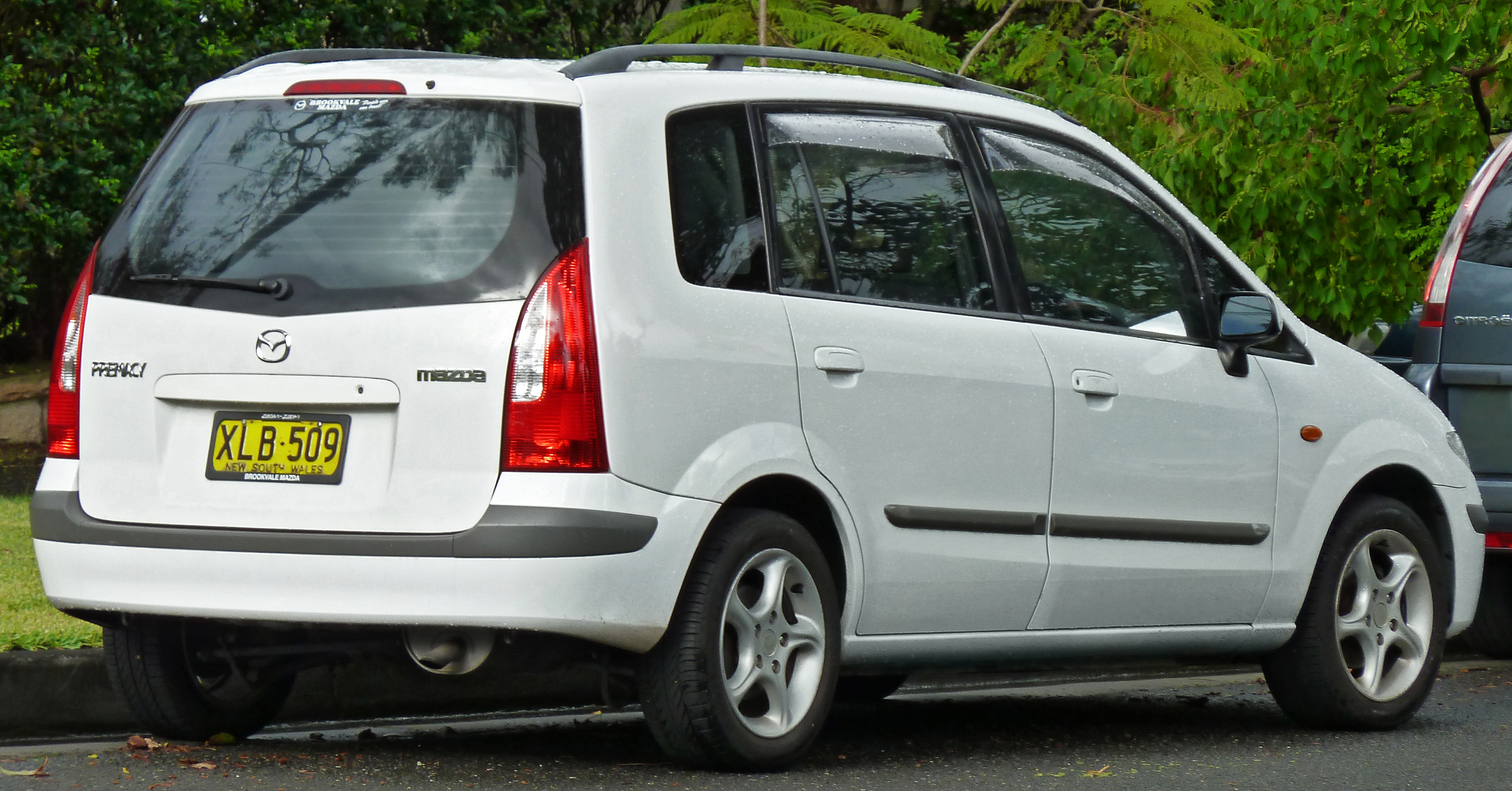 2001–2002 Mazda Premacy (CP) hatchback. Photographed in Roseville, New South Wales, Australia.